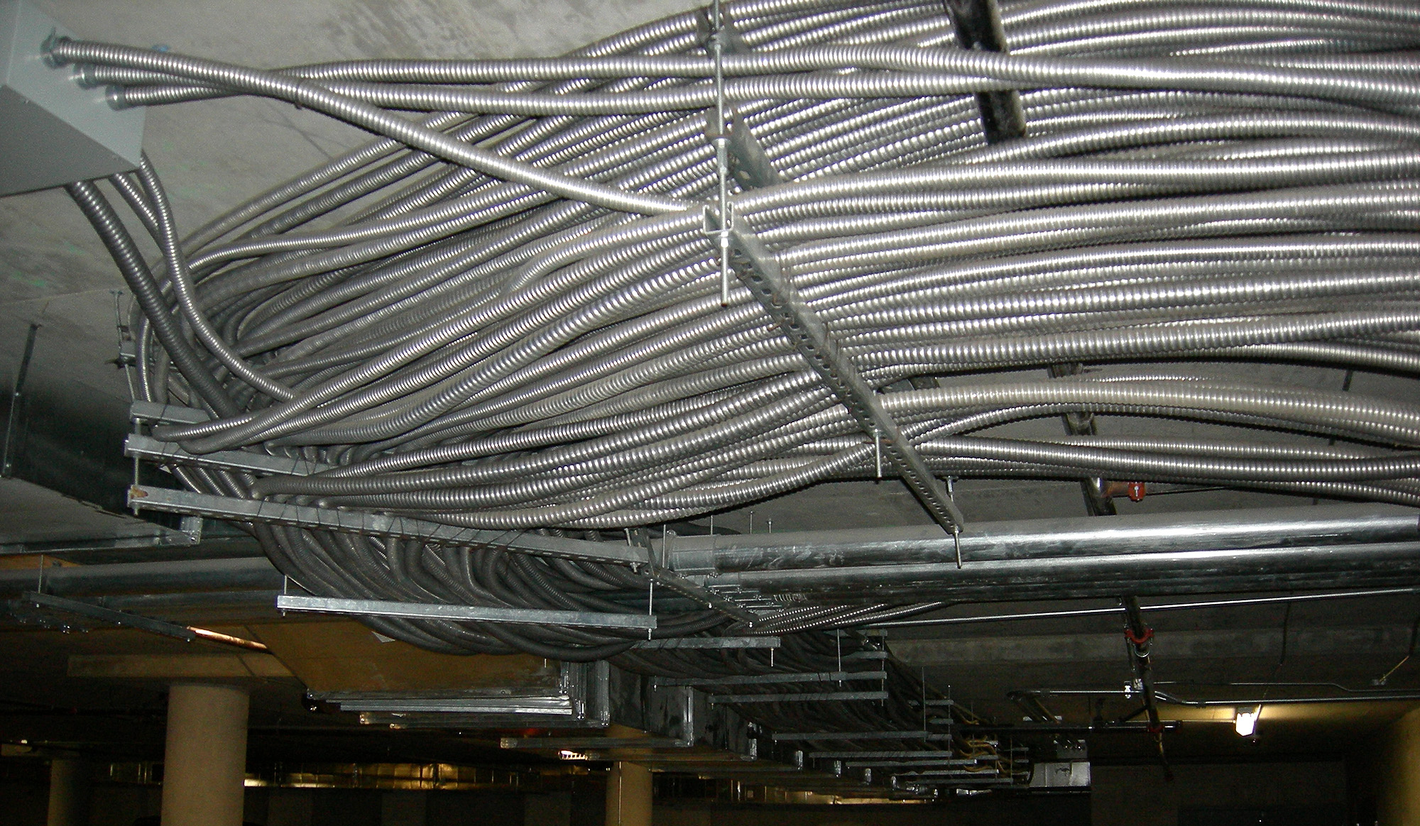 Protective steel conduits shot in an underground parking lot.